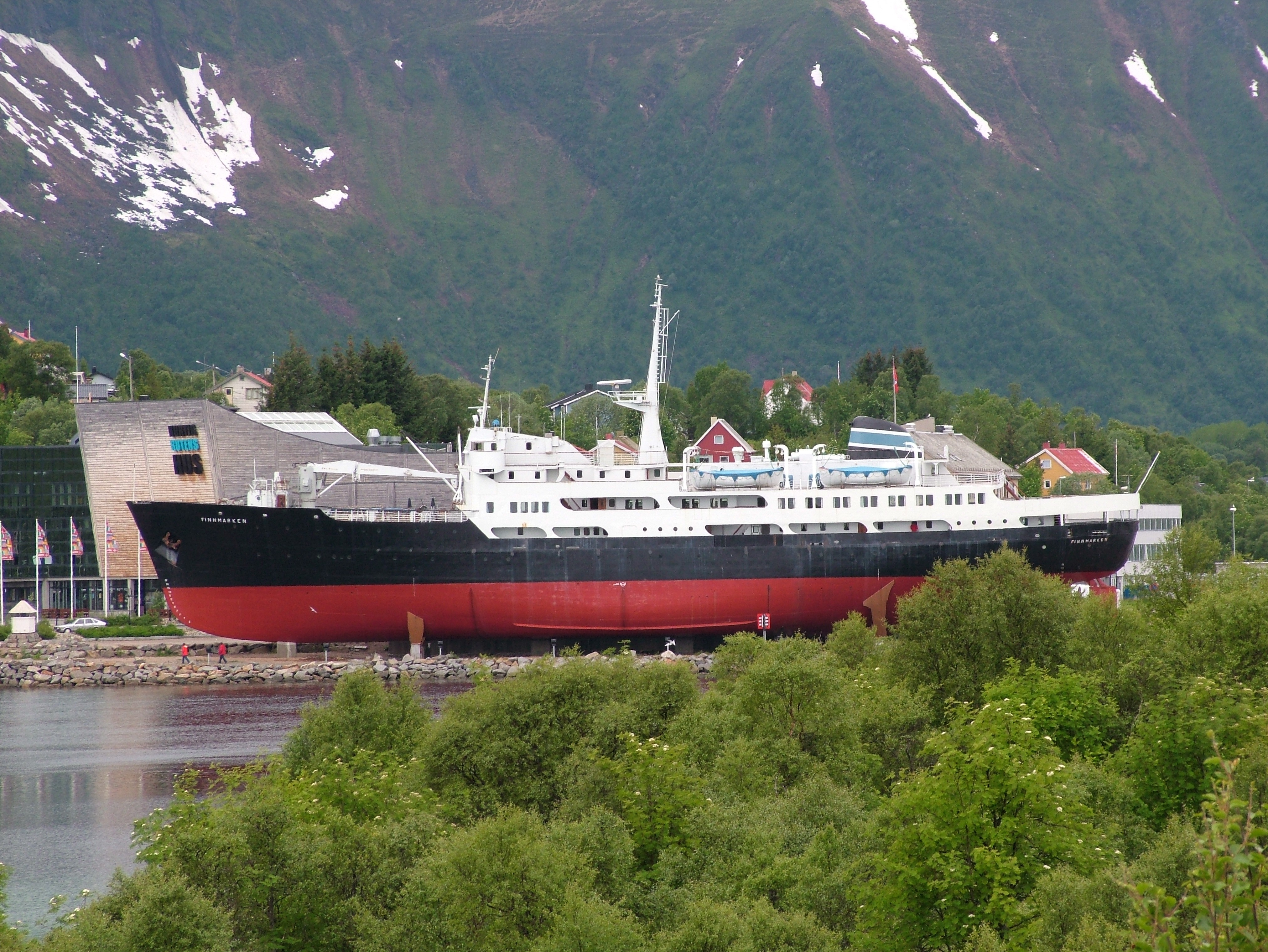 The original MS Finnmarken (built 1956) — formerly serving the 'Hurtigruten' coastal express in Norway. Present day ship museum, at the Hurtigruten Museum — in Stokmarkness, Norway.